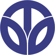 Emblem of Fukui prefecture, Japan. Standard version as seen on flavicon of Fukui Government Website